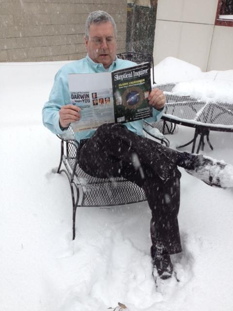 Barry Karr, reading an issue of SI, in the wonderful weather of Amherst, NY